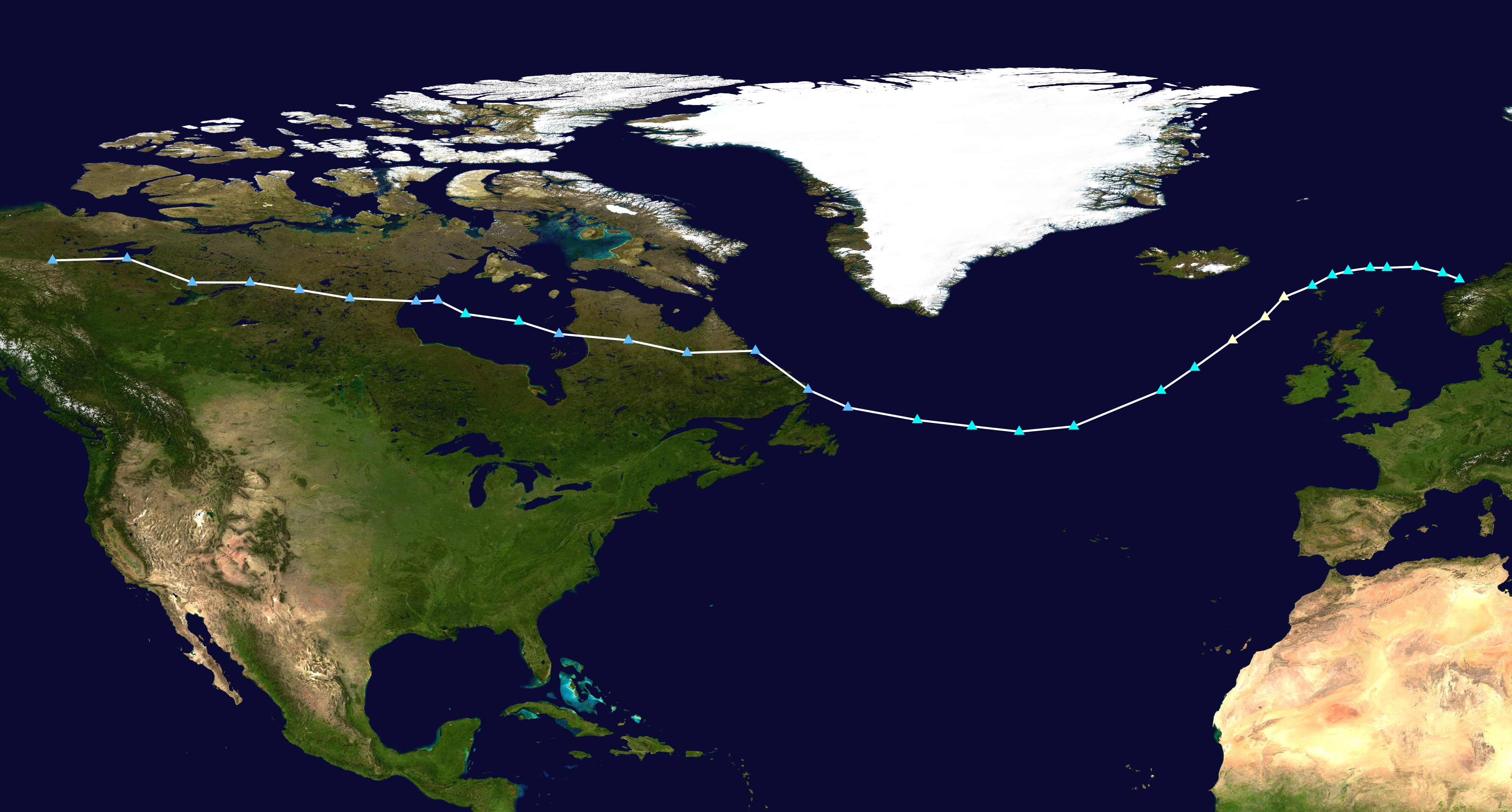 Track map of Storm Abigail of the European windstorms of 2015. The points show the location of the storm at 6-hour intervals. The colour represents the storm's maximum sustained wind speeds as classified in the Beaufort wind scale (see below). Beaufort scale 1-7≤38 mph≤62 km/h 8-11 (gale-force)39–73 mph63–118 km/h 12 (hurricane force)≥74 mph≥119 km/h Unknown